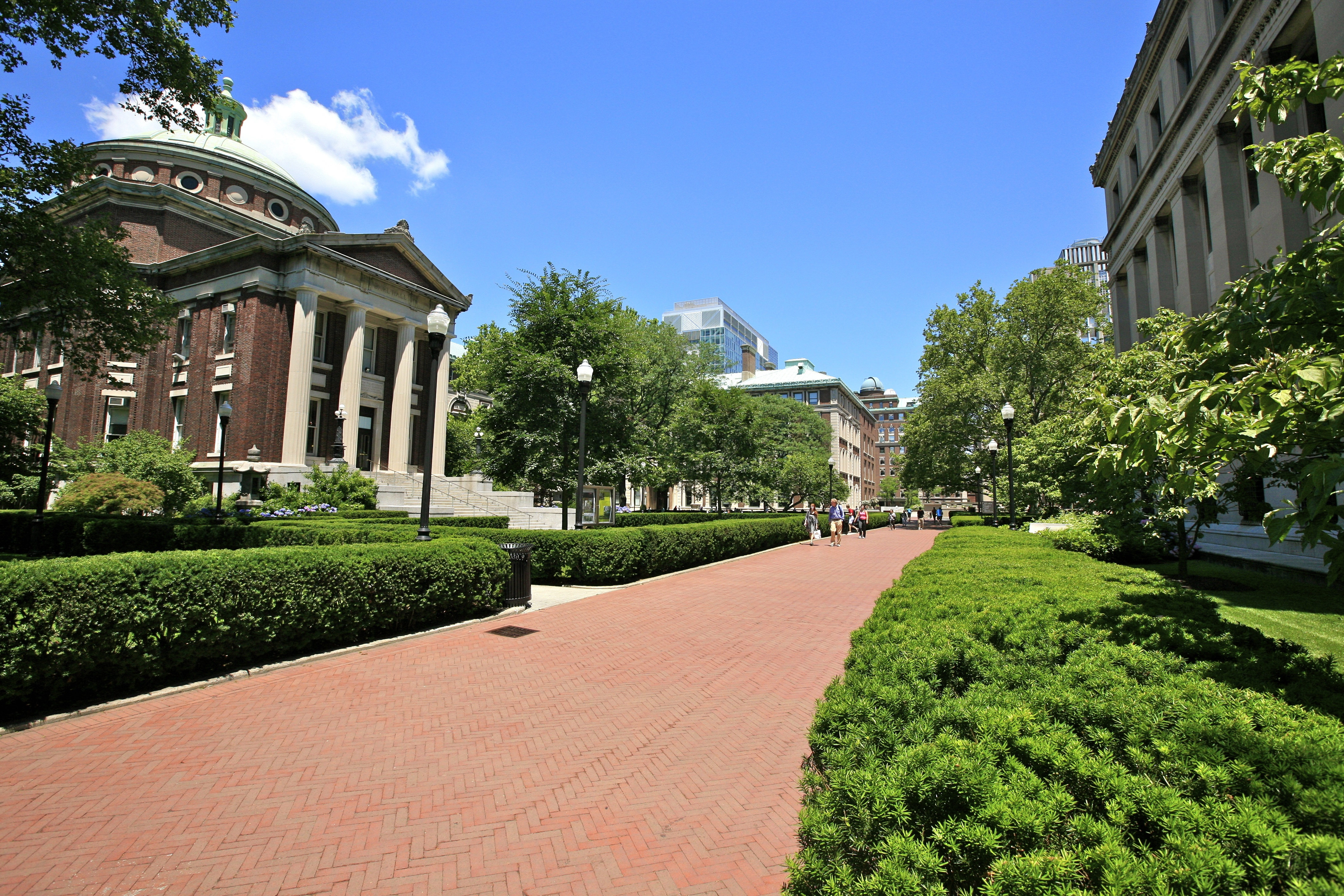 Walking Through Columbia University